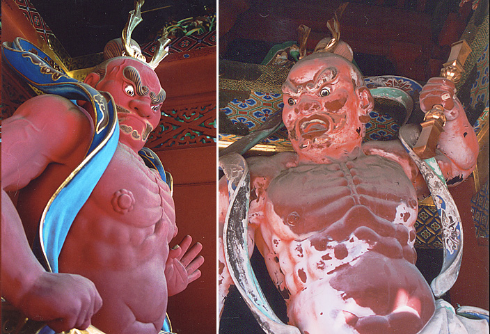 Composite of two photos. A-Un statues at Tōshō-gū and/or Taiyū-in in Nikkō, Tochigi Prefecture, Japan. One or both statues reversed left-to-right.